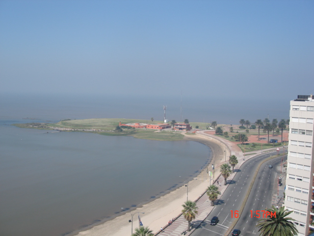 Picture taken from a building across the Rambla of Montevideo